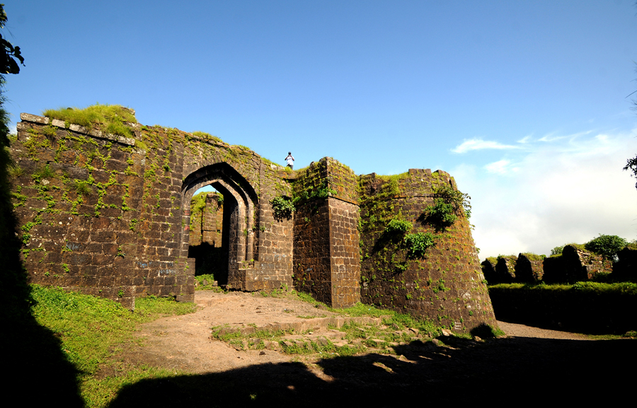 Gawilgarh Fort ( The walls & the whole area contained by them)